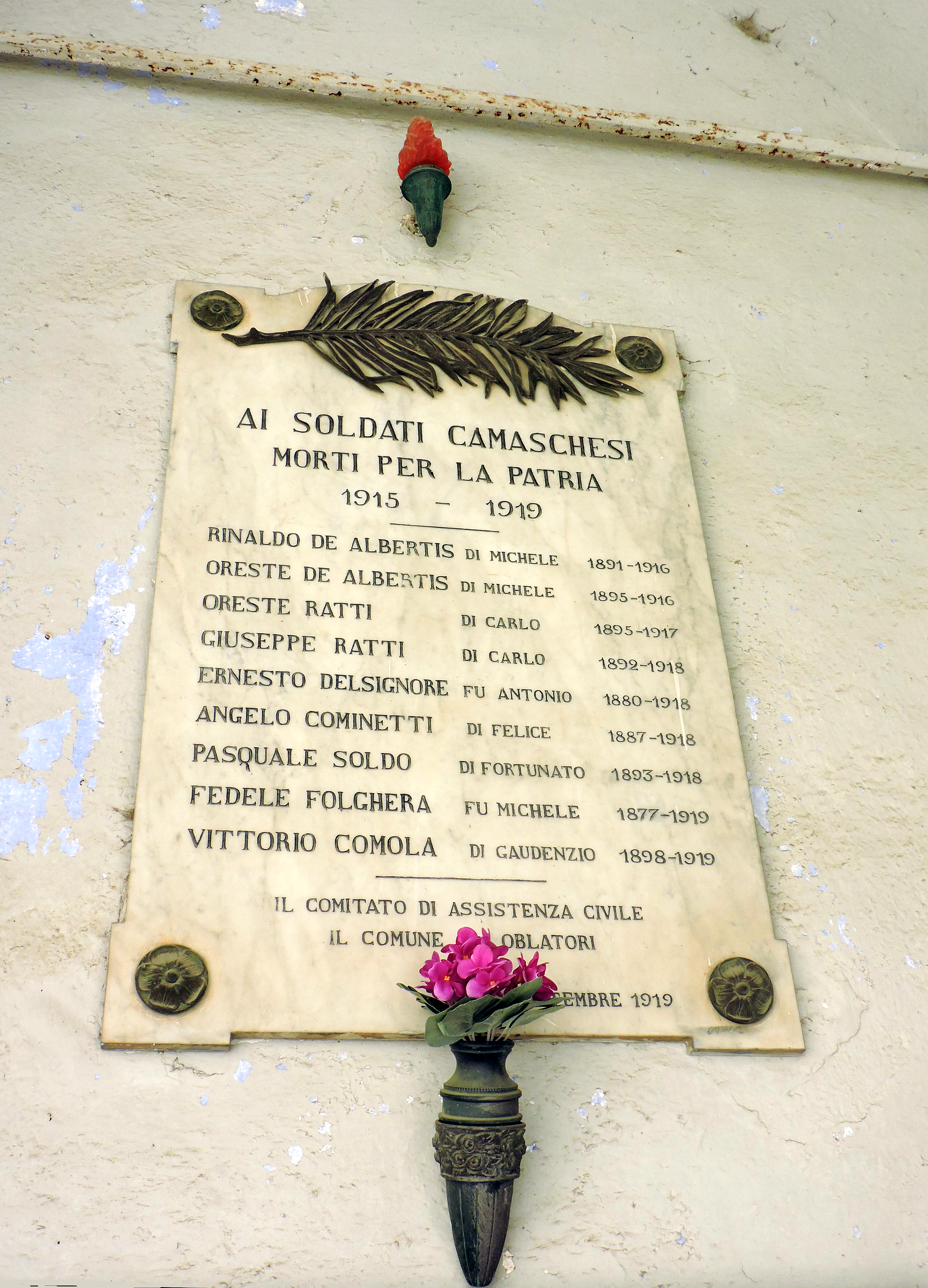 Camasco (Varallo, VC, Italy): war mwemorial tablet